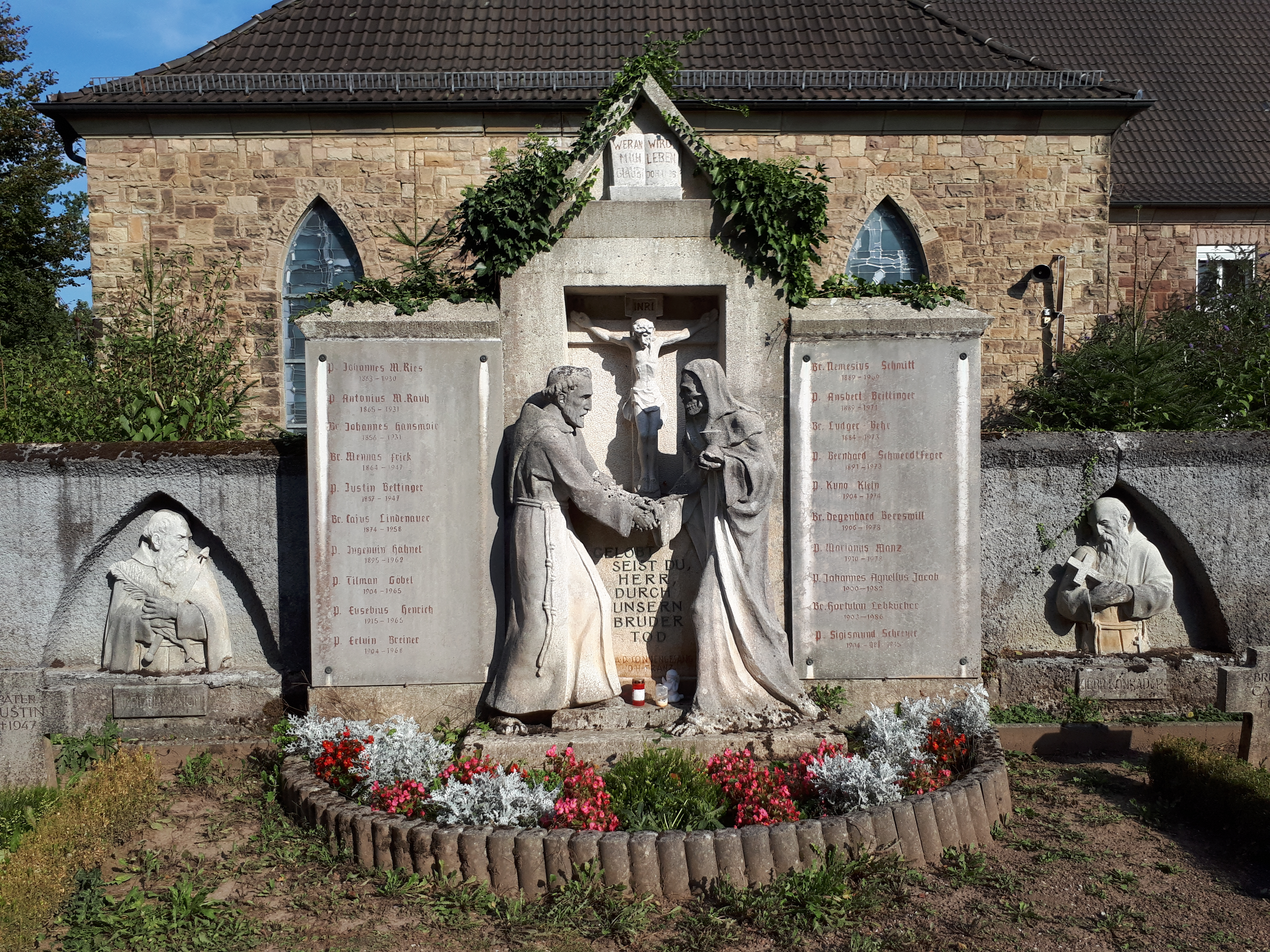 Cemetery of the monastery Blieskastel: Large niche with figurative representation in relation to the poem Sun Song of Francis of Assisi